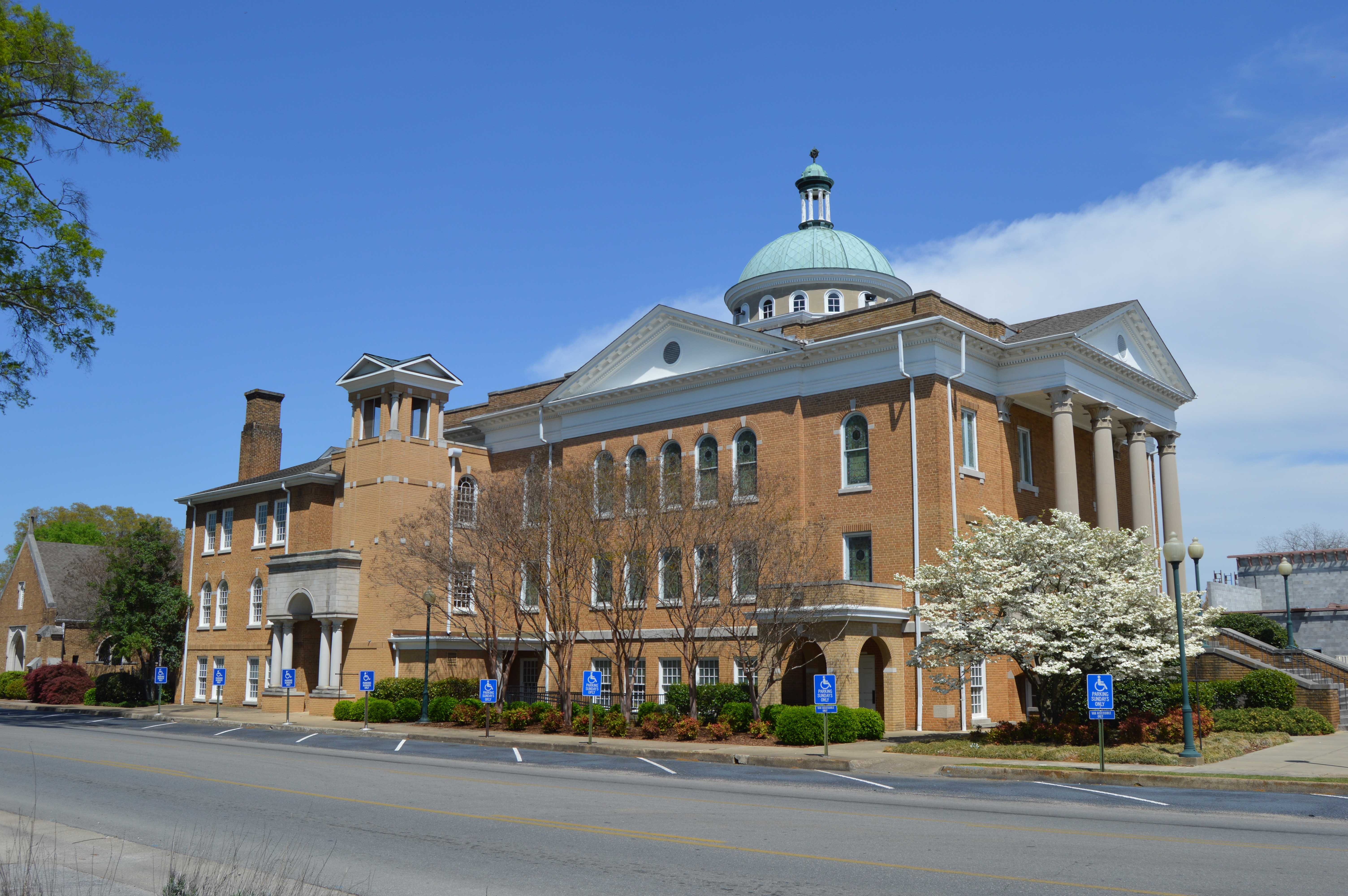 Front and western side of the First Methodist Church of Athens, located at 208 Hobbs Street in Athens, Alabama, United States. Built in 1925, it is part of the George S. Houston Historic District, a historic district that is listed on the National Register of Historic Places.